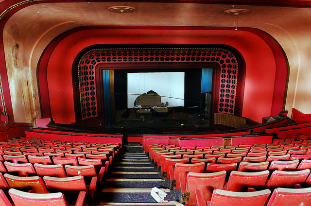 Interior of the derelict ABC Cinema, Kirkgate, Wakefield, West Yorkshire